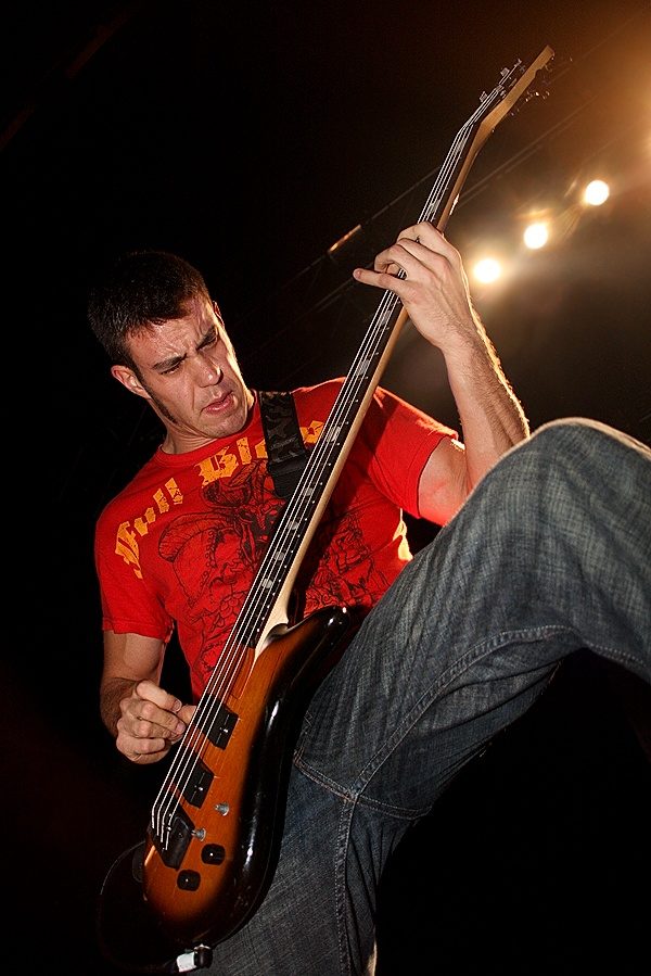 DI - live